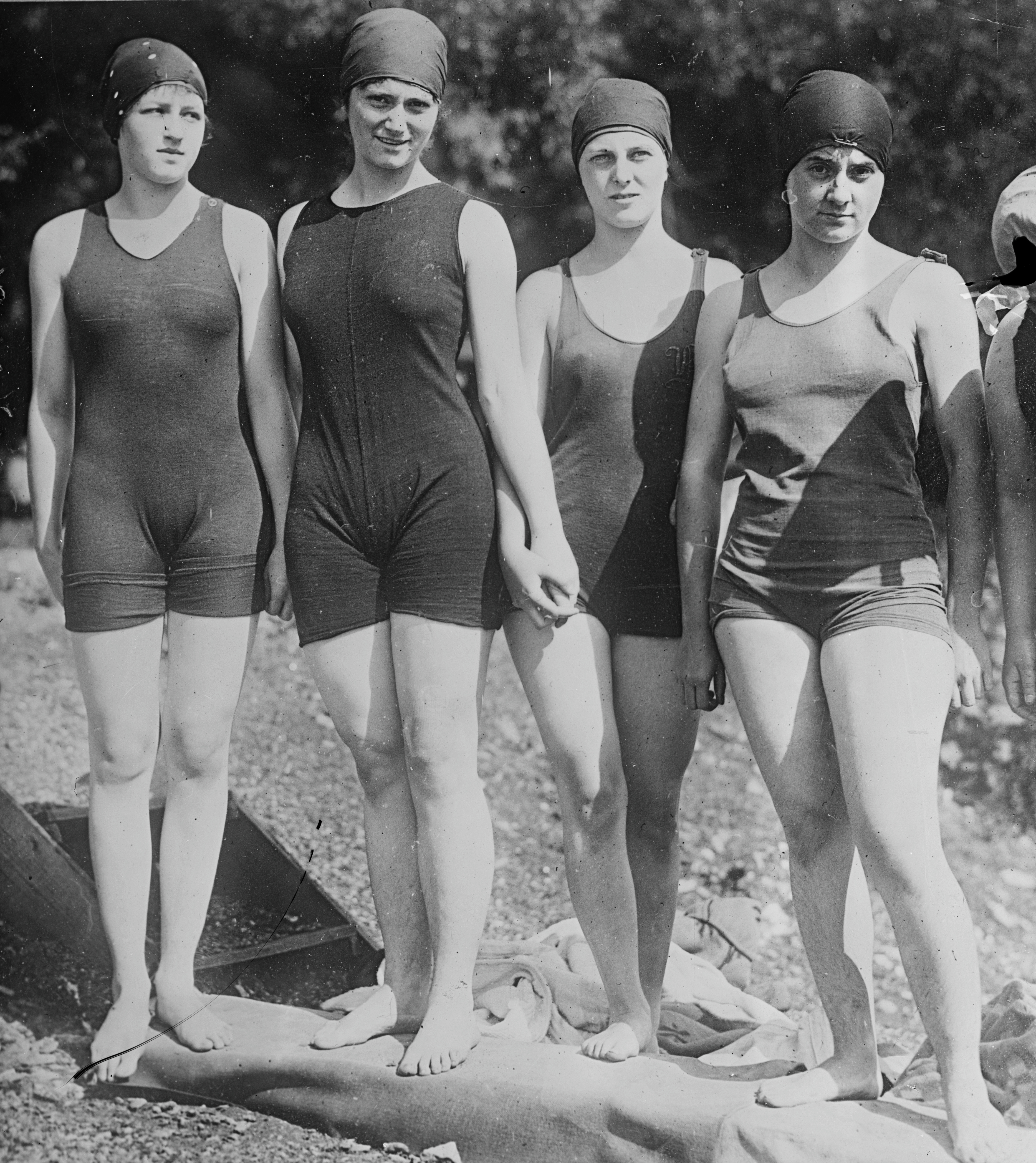 "Mermaid Club, Philadelphia." Members in bathing suits. Note: Library of Congress dates this from 1910s; Image posted & discussed at here which gives the date as 1920